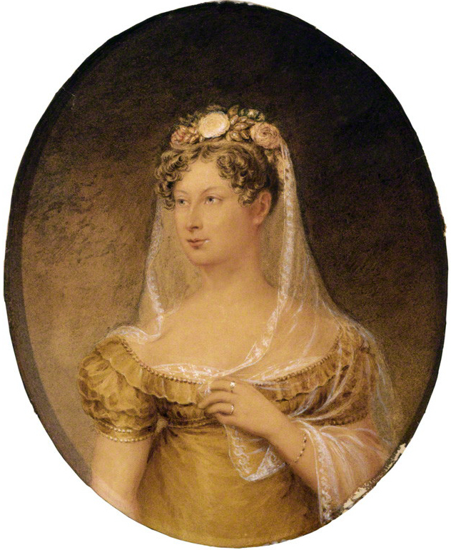 Portrait of Princess Charlotte Augusta of Wales